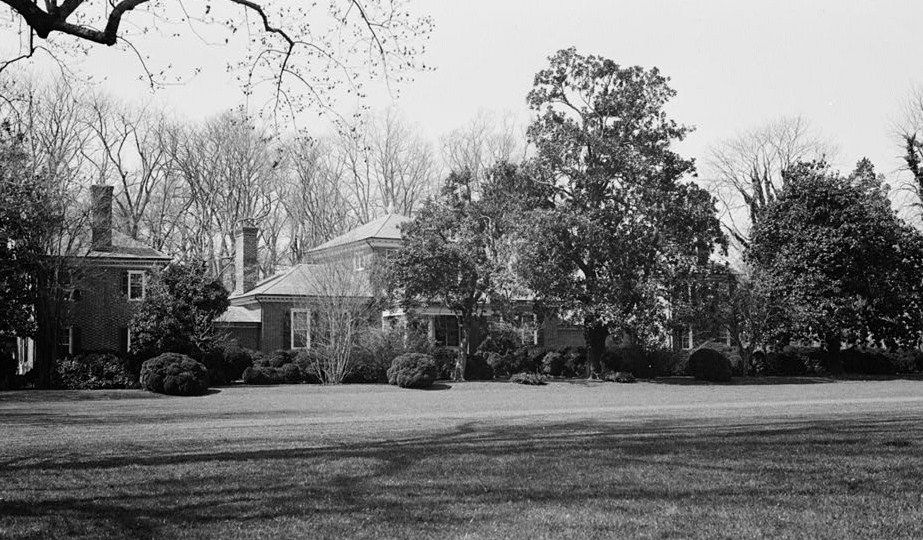 Brandon, State Route 611, Prince George vicinity (Prince George County, Virginia) cropped This file comes from the Historic American Buildings Survey (HABS), Historic American Engineering Record (HAER) or Historic American Landscapes Survey (HALS). These are programs of the National Park Service established for the purpose of documenting historic places. Records consist of measured drawings, archival photographs, and written reports. When reusing please credit: Library of Congress, Prints & Photographs Division, VA0840 This tag does not indicate the copyright status of the attached work. A normal copyright tag is still required. See Commons:Licensing for more information. This work is in the public domain in the United States because it is a work prepared by an officer or employee of the United States Government as part of that person’s official duties under the terms of Title 17, Chapter 1, Section 105 of the US Code. See Copyright. Note: This only applies to original works of the Federal Government and not to the work of any individual U.S. state, territory, commonwealth, county, municipality, or any other subdivision. This template also does not apply to postage stamp designs published by the United States Postal Service since 1978. (See § 313.6(C)(1) of Compendium of U.S. Copyright Office Practices). It also does not apply to certain US coins; see The US Mint Terms of Use. This file has been identified as being free of known restrictions under copyright law, including all related and neighboring rights. Object location37° 15′ 25″ N, 76° 59′ 41″ W